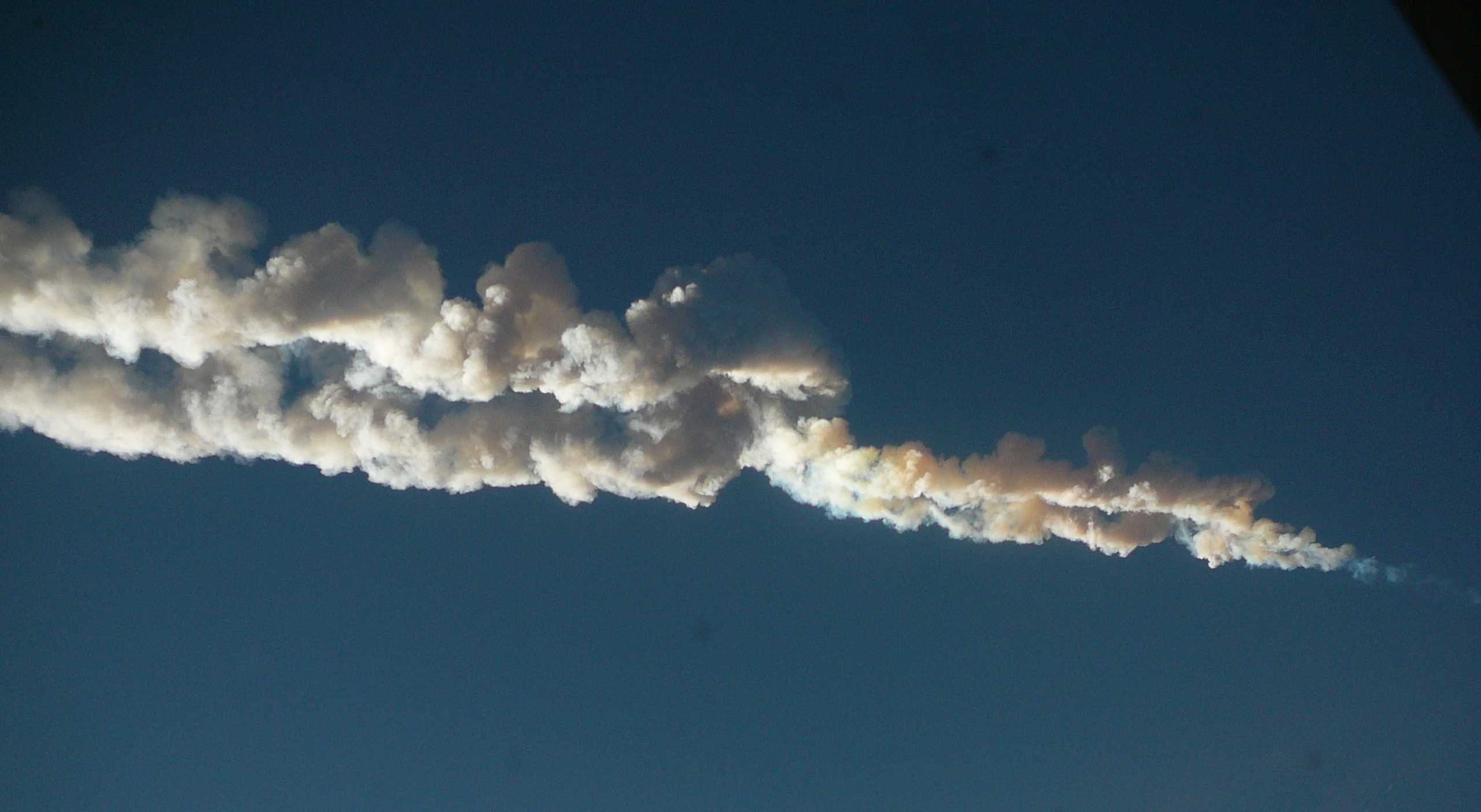 Witness photo of 2013 Russian meteor event made from Chelyabimsk Drama Theatre